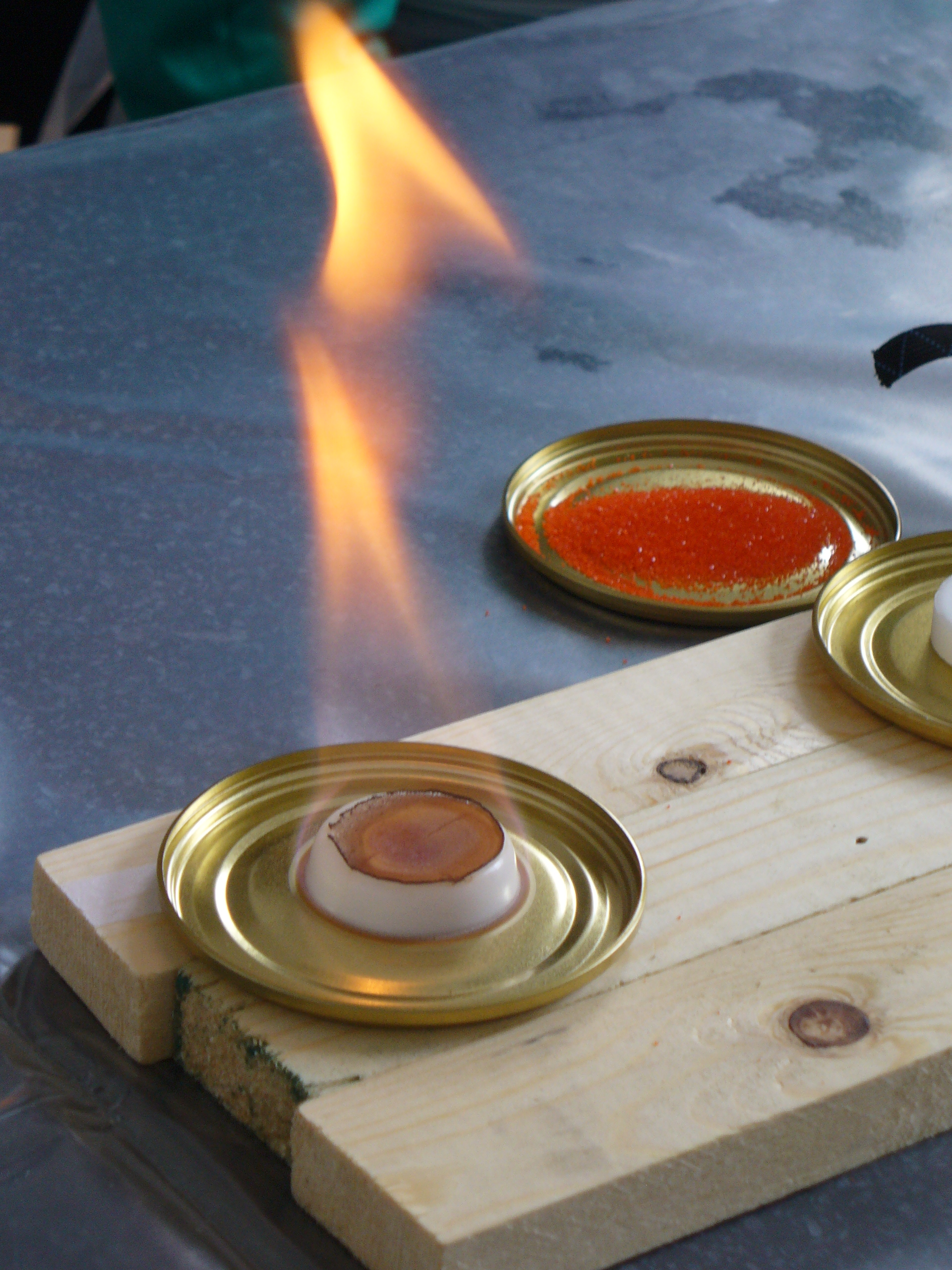 Dry fuel burns with a colorless flame similar to alcohol, does not spread during combustion, no bloat, leaves of ash. Used for chemical experiments, as well as for kindling a fire in field conditions.